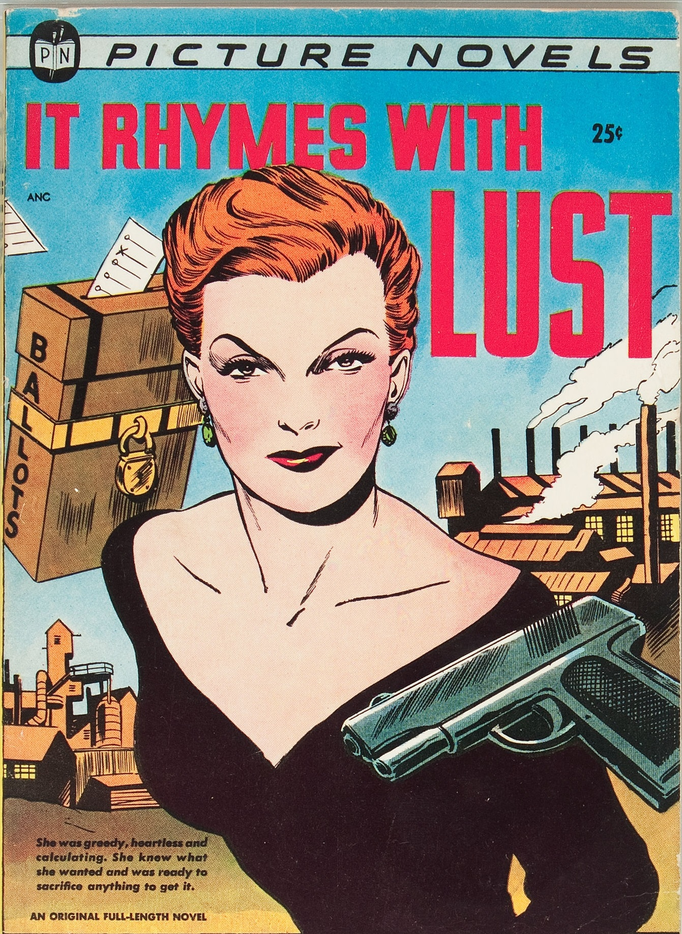 Cover of It Rhymes with Lust (1950) "picture novel" (proto-graphic novel). Cover art by penciler Matt Baker and inker Ray Osrin.